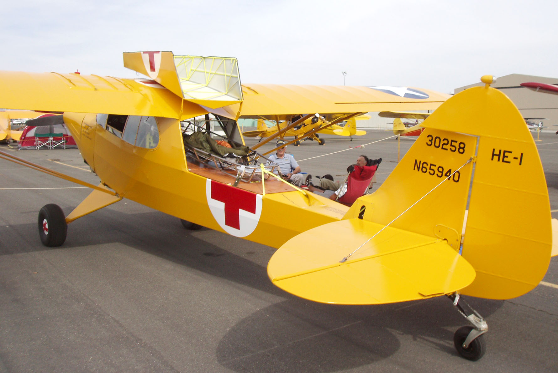 A beautiful restoration by the late Bud Field at the annual antique show at Merced, California, in June 2007.